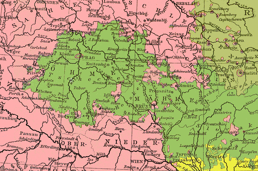 Area of the German (red), Czech and Slovak (green) and Hungarian (yellow) languages in Austria-Hungary monarchy in the 19th century (Bohemia and Moravia and adjoining German Prussia)